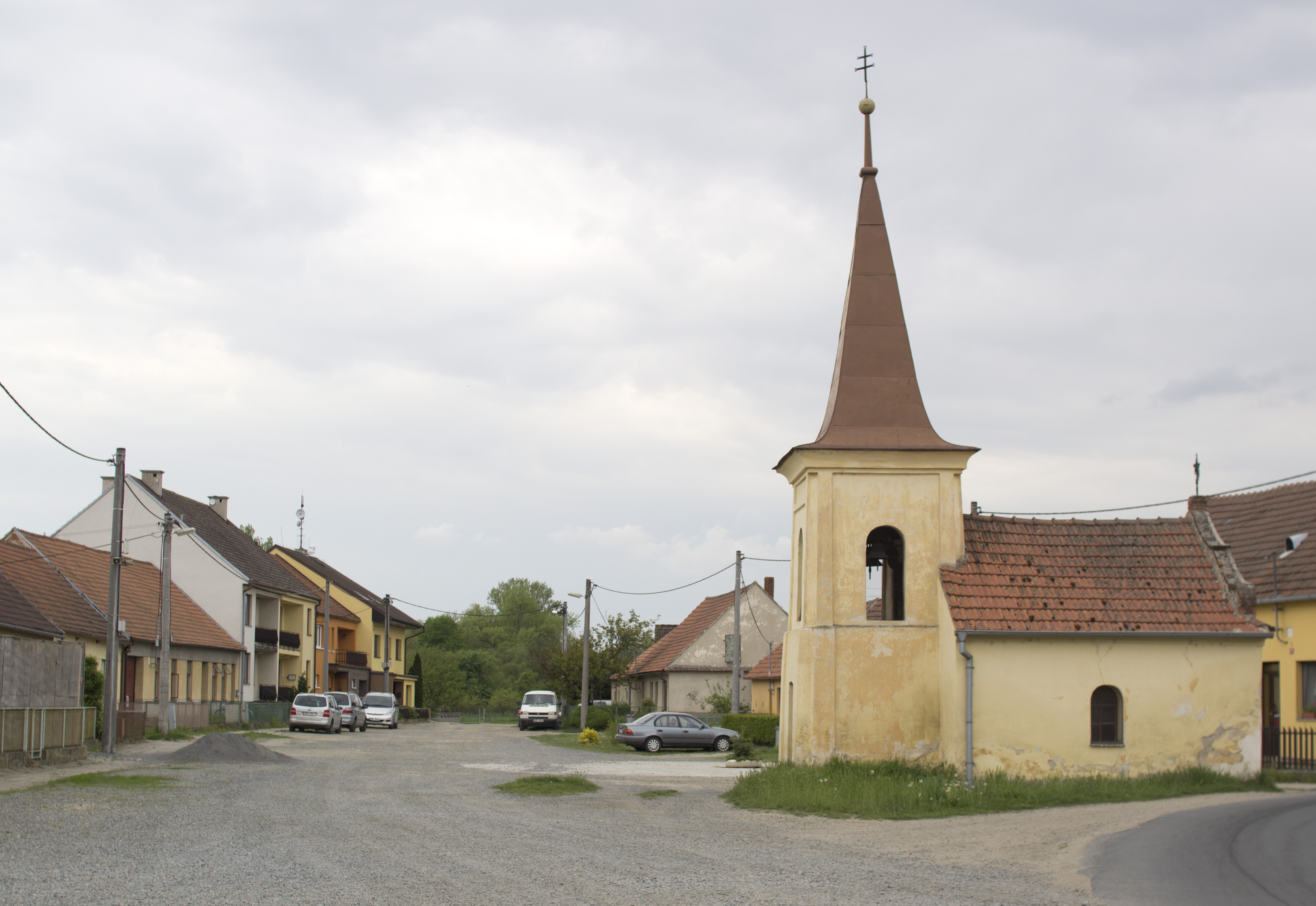 Chaple, Letkovice, Ivančice, Brno-Country District, South Moravian Region, Czech Republic